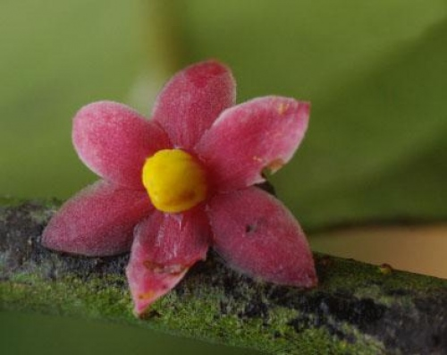 Sirdavidia solannona, staminate flower.